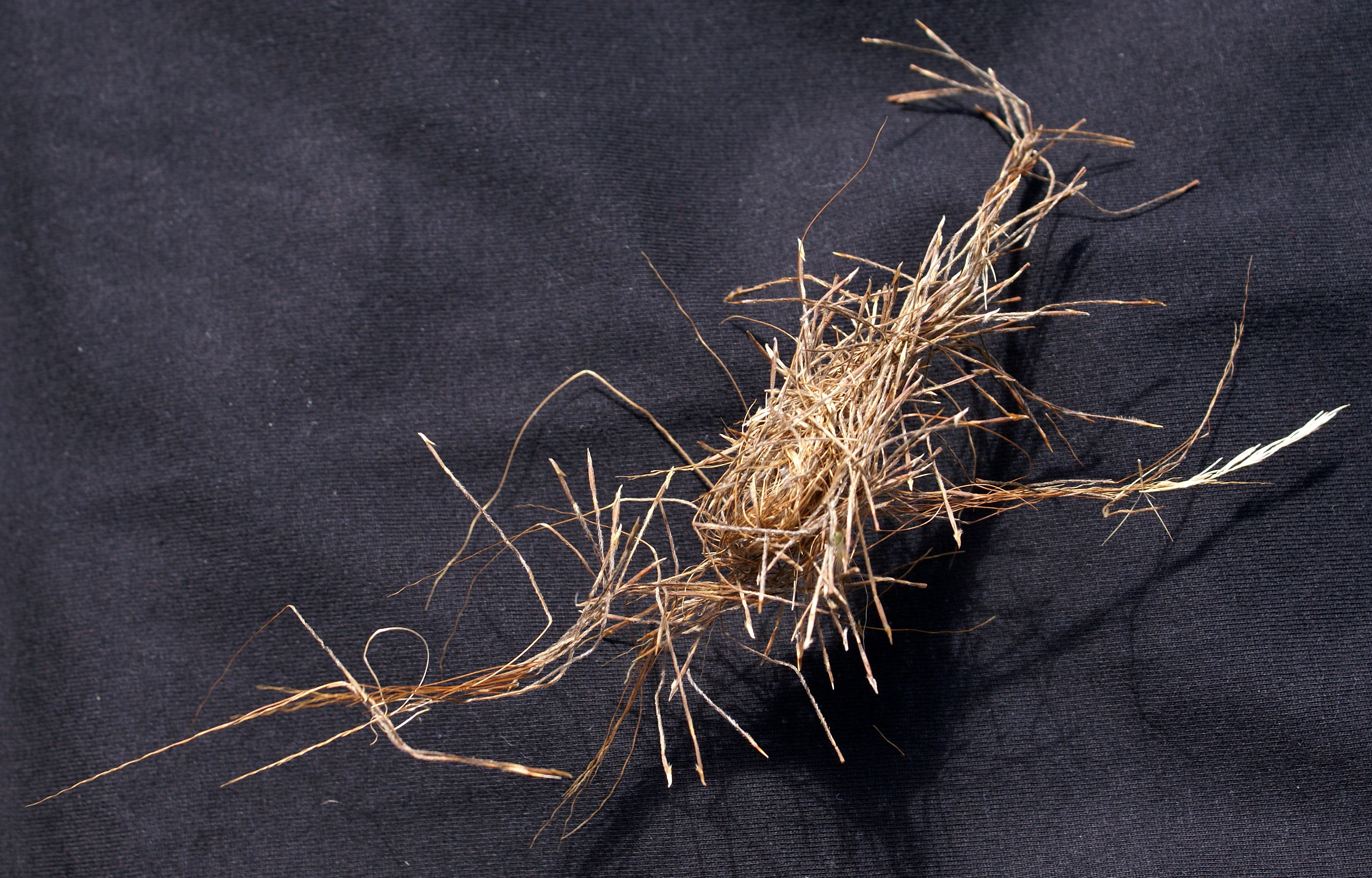 Tanglehead tangled heads : long awns of the seeds of Heteropogon contortus twist together making these dispersal balls